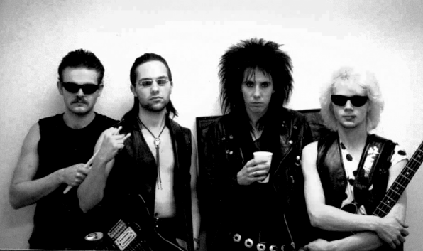 Fr. v. Eken, Schiz, J.B. Liljan